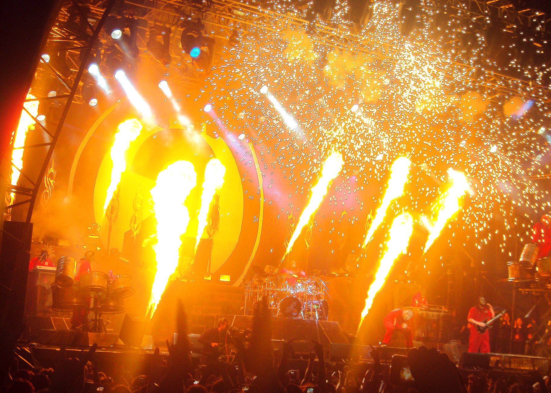 Show finale.